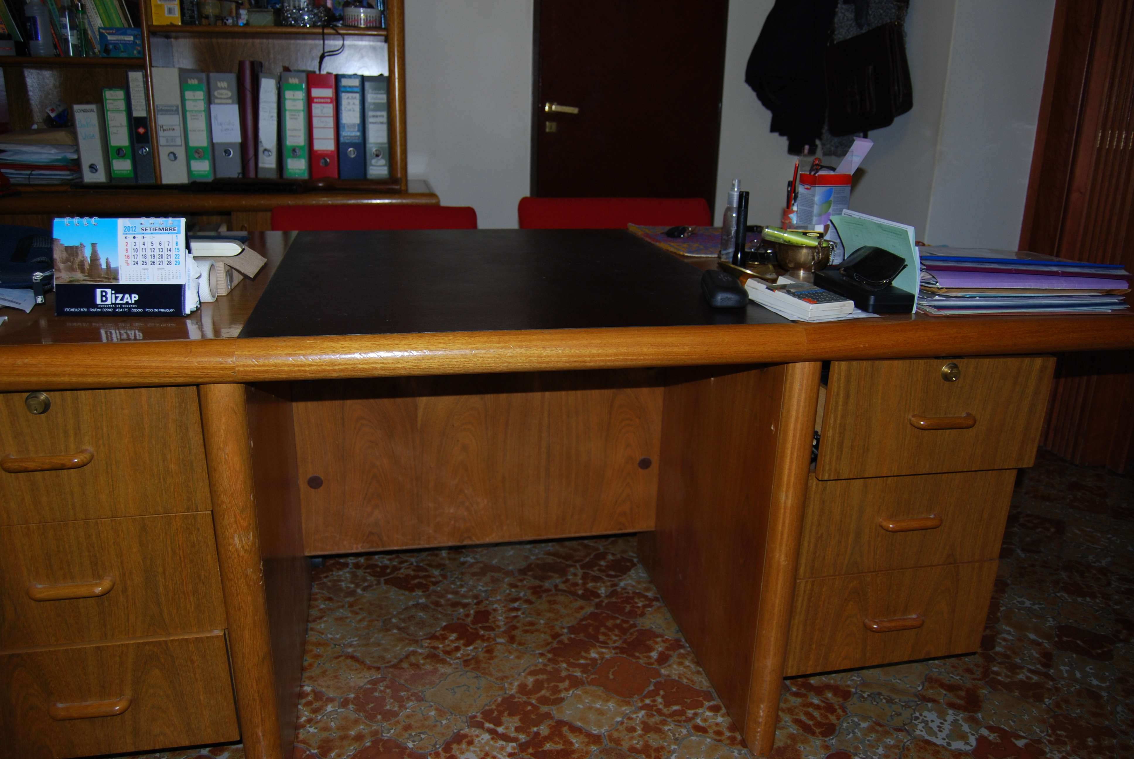 Oak desk with drawers.